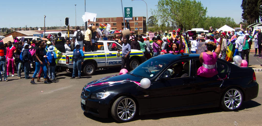 Soweto Pride 2012